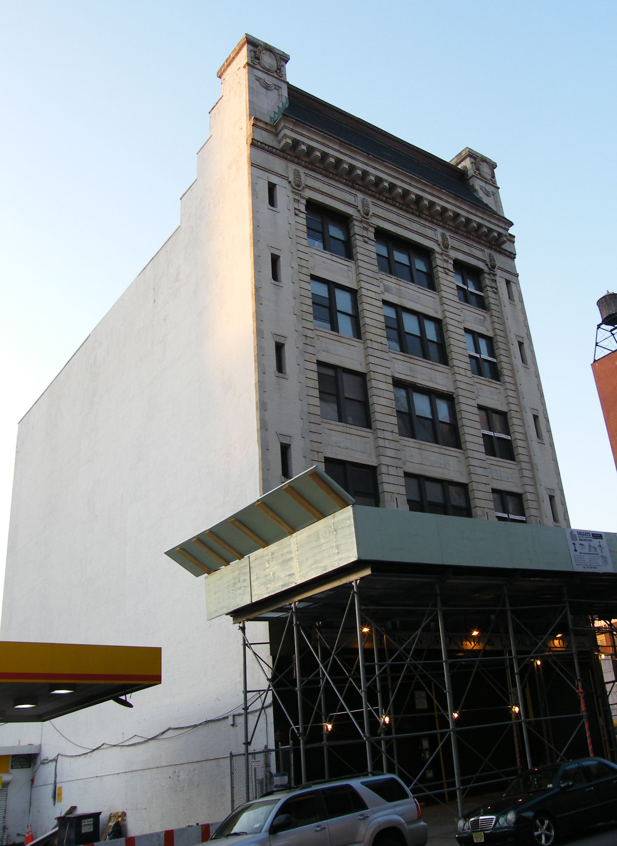 Sheffeld Farms stable on National Register of Historic Places in New York City